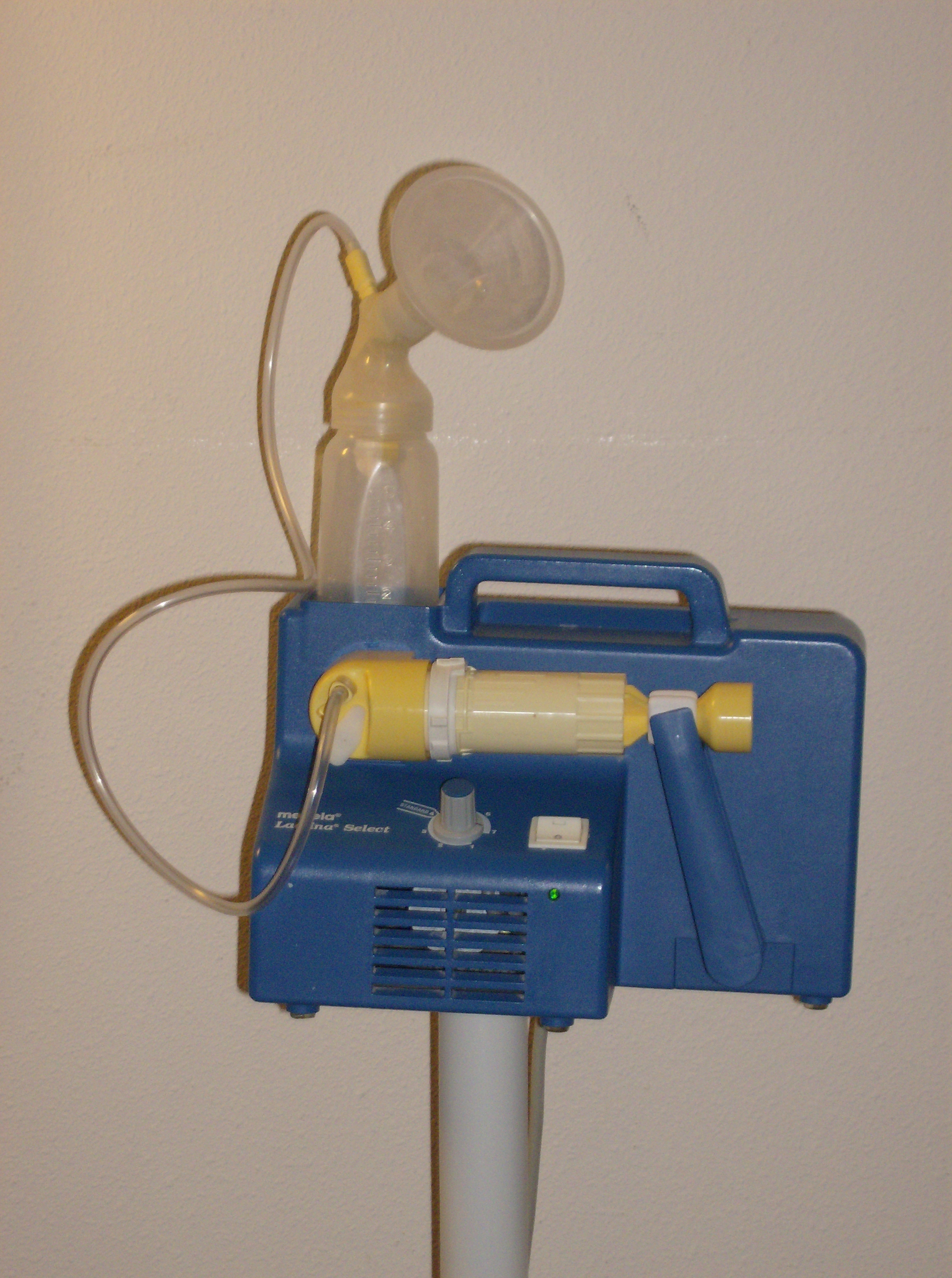 medela lactina select breast pump single breastfeeding breast milk expression